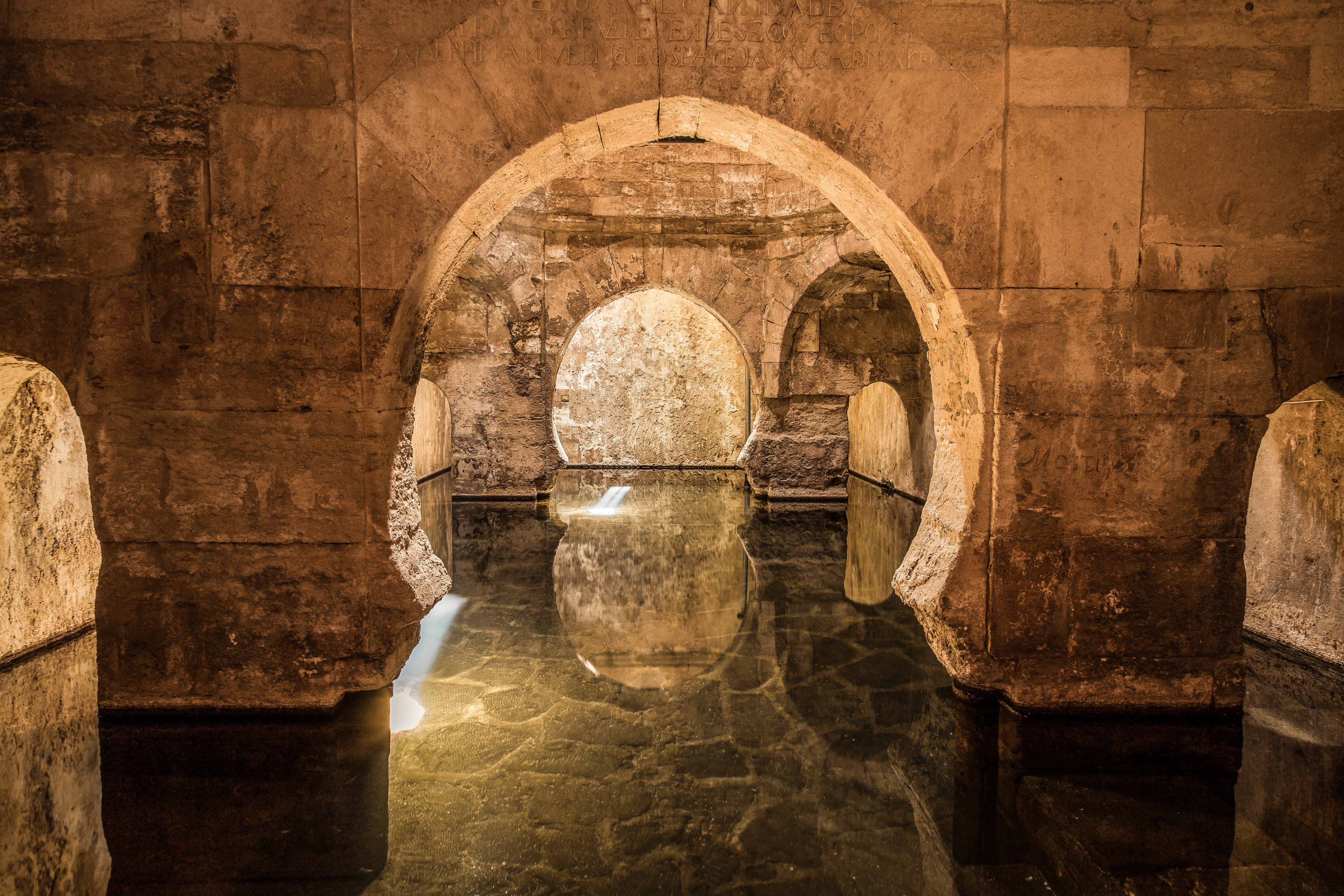 Arab Baths of Alhama de Granada in Andalusia, Spain.